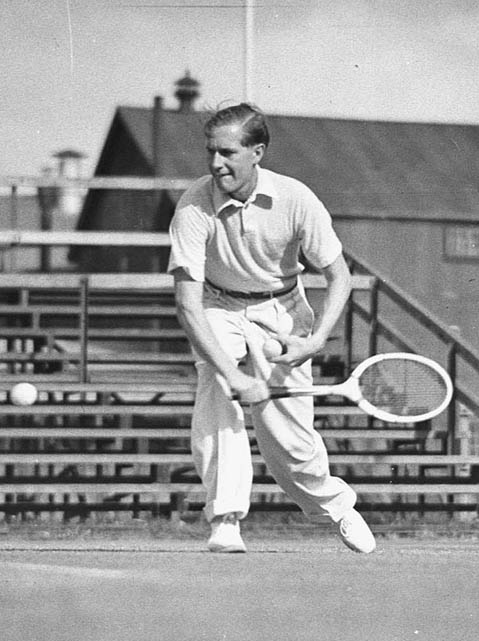 At the end of 1937, Cramm, Henkel, Budge, and Mako all sailed Down Under for the Australian Championships. Cramm (above and below) practices his elegant game.